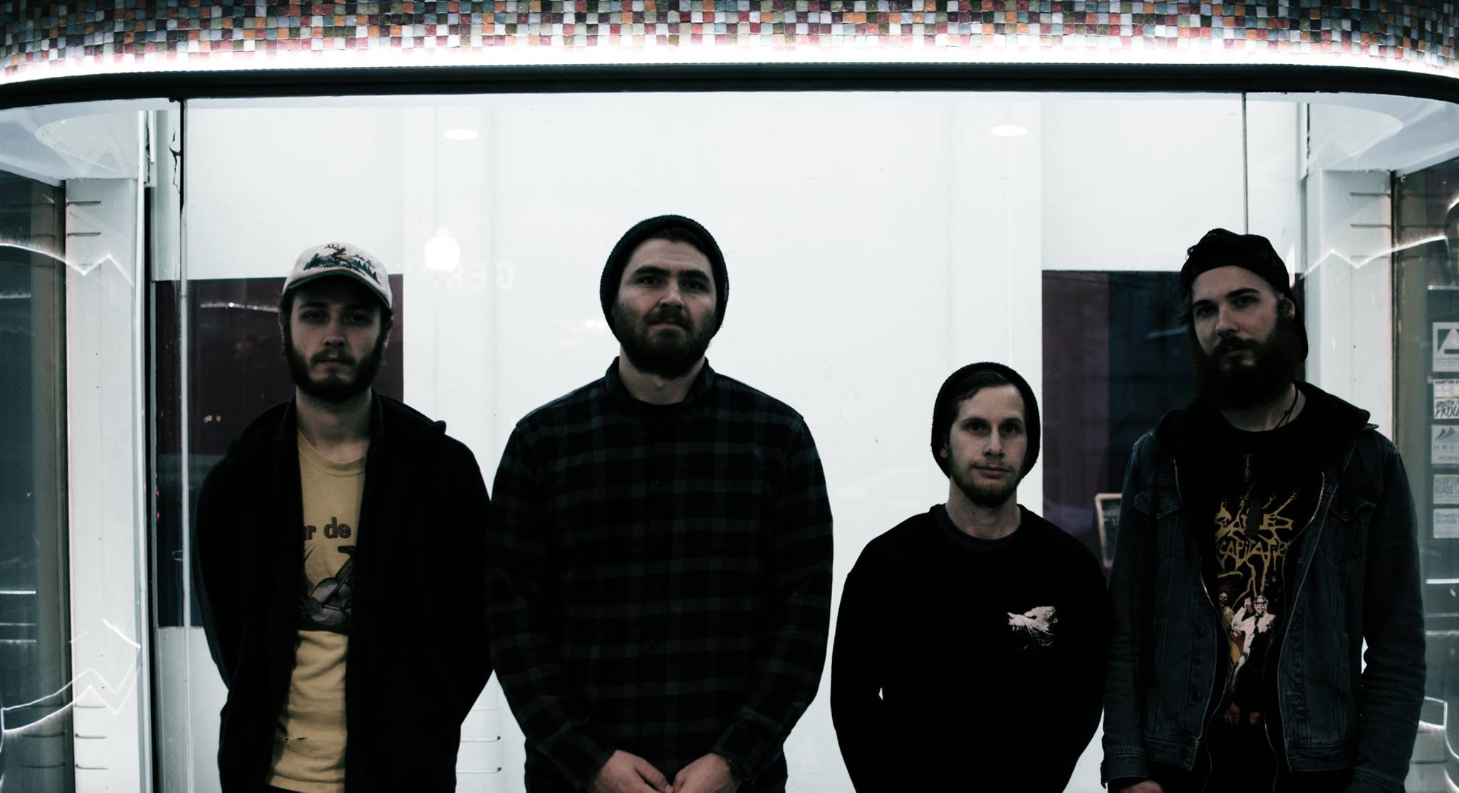 The four members of Shy, Low.